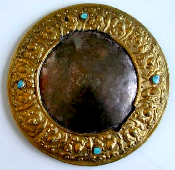 Divination Mirror of the State Oracle of Tibet